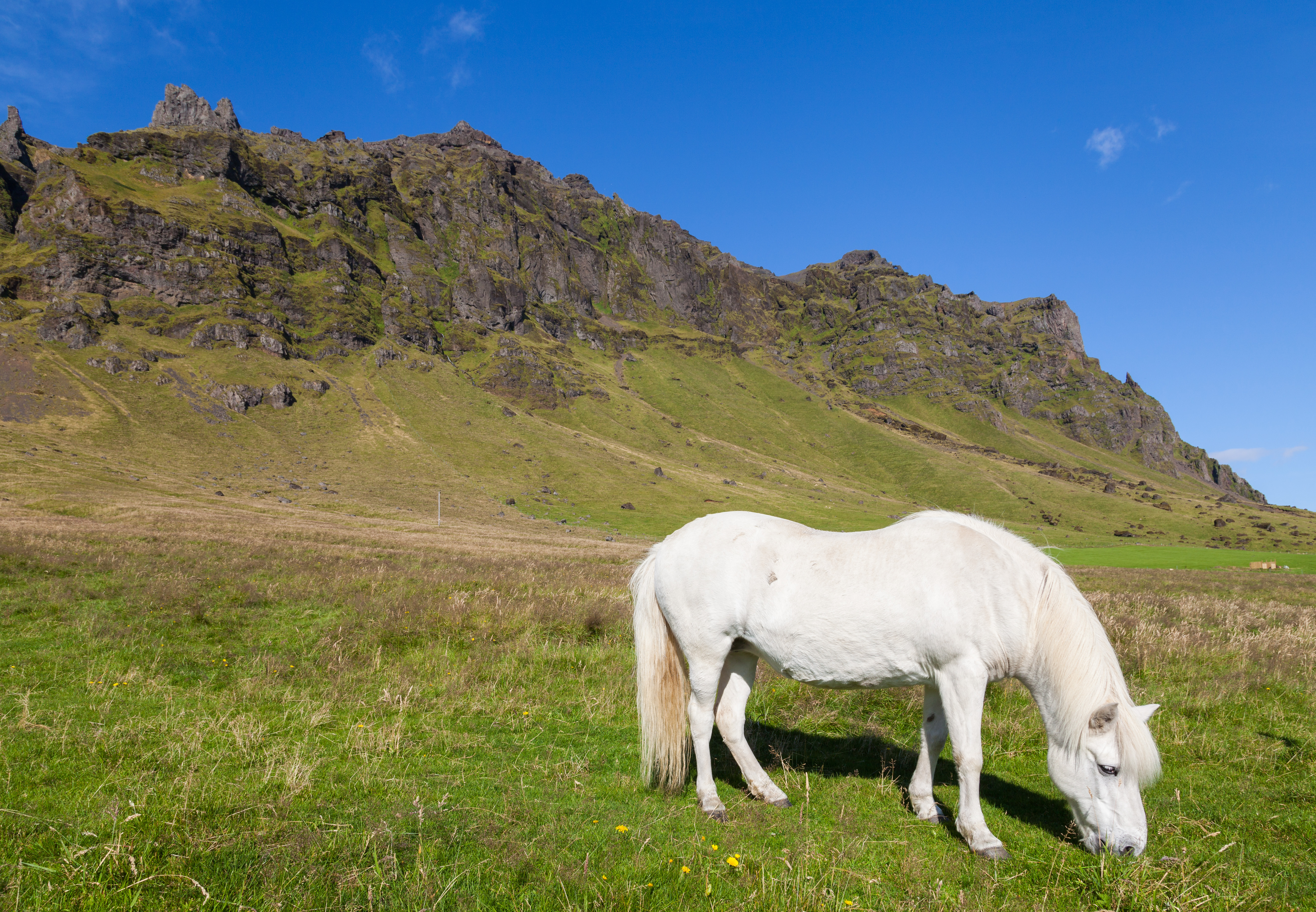 Storhofthi, Suðurland, Iceland